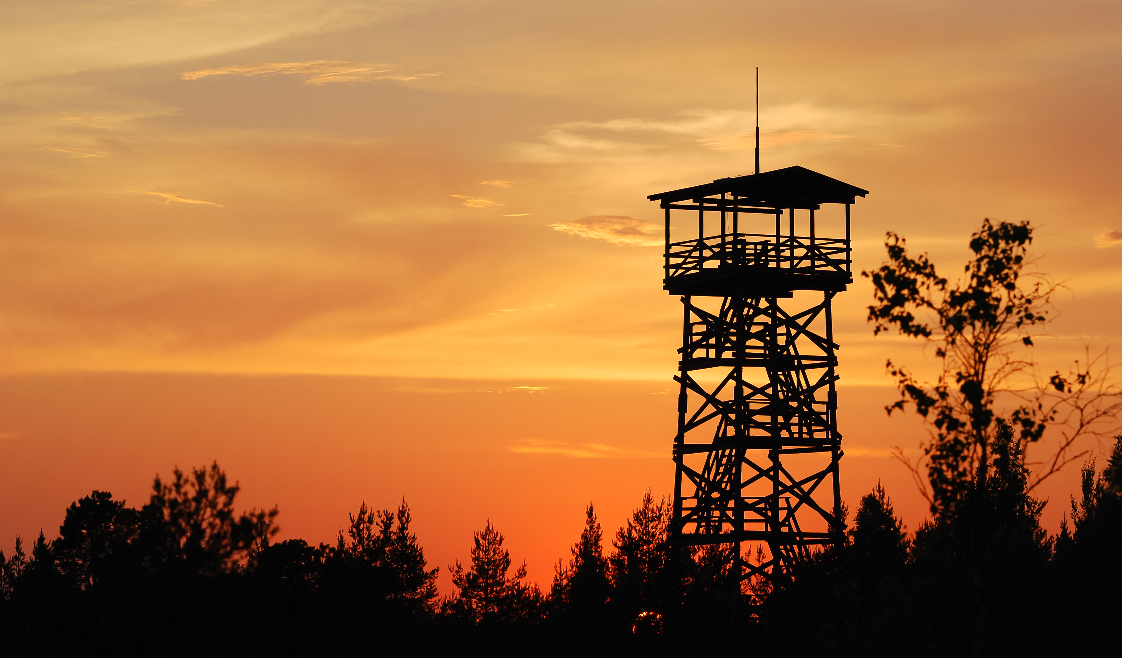 Watchtower in Mukri Bog